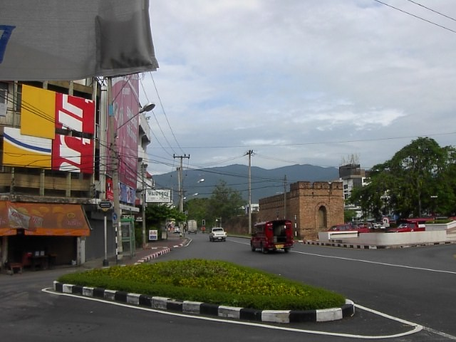 Chang Phueak Gate in 2004